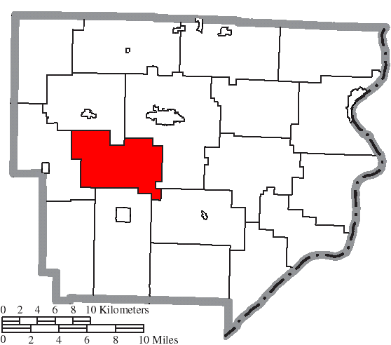 Map of the municipal and township boundaries of Monroe County, Ohio, United States, as of the 2000 census, with the location of Wayne Township highlighted. Township borders are shown only in unincorporated areas in order to differentiate incorporated and unincorporated areas more clearly.